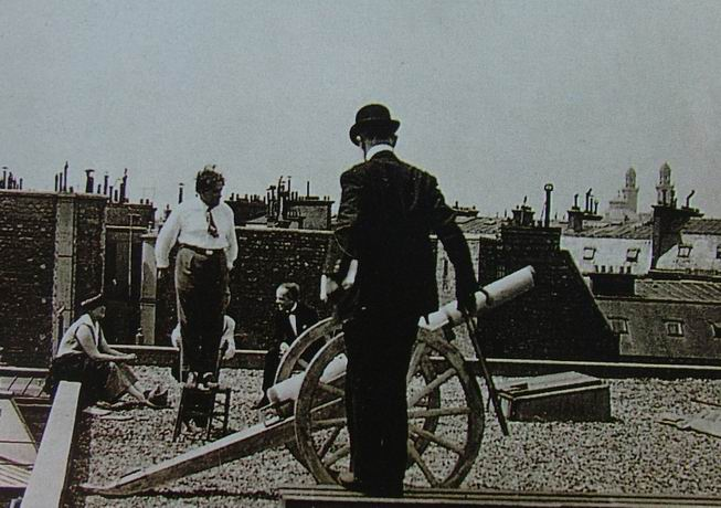 Erik Satie & Francis Picabia, Jean Biorlin (prologue de Relache). Photo or still taken by unknown during the filming of René Clairs short fantasy Entre'act in 1924. The scenario was written by Francis Picabia and René Clair. Cast included some internationally reknowned modern artists: Jean Börlin, Inge Frïss, Francis Picabia, Marcel Duchamp, Man Ray, Darius Milhaud, Erik Satie and Mamy.